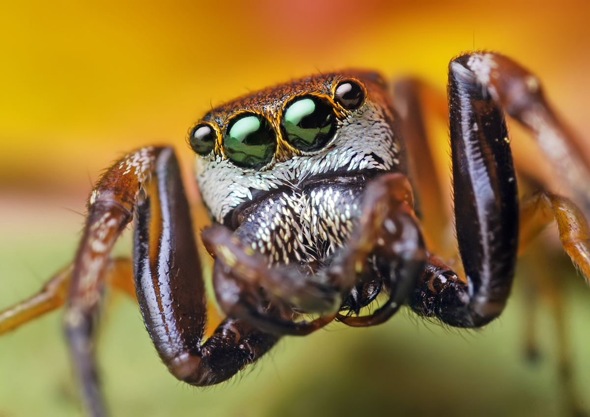 Face of a Zygoballus rufipes jumping spider. (Male Hammerjawed Jumper).